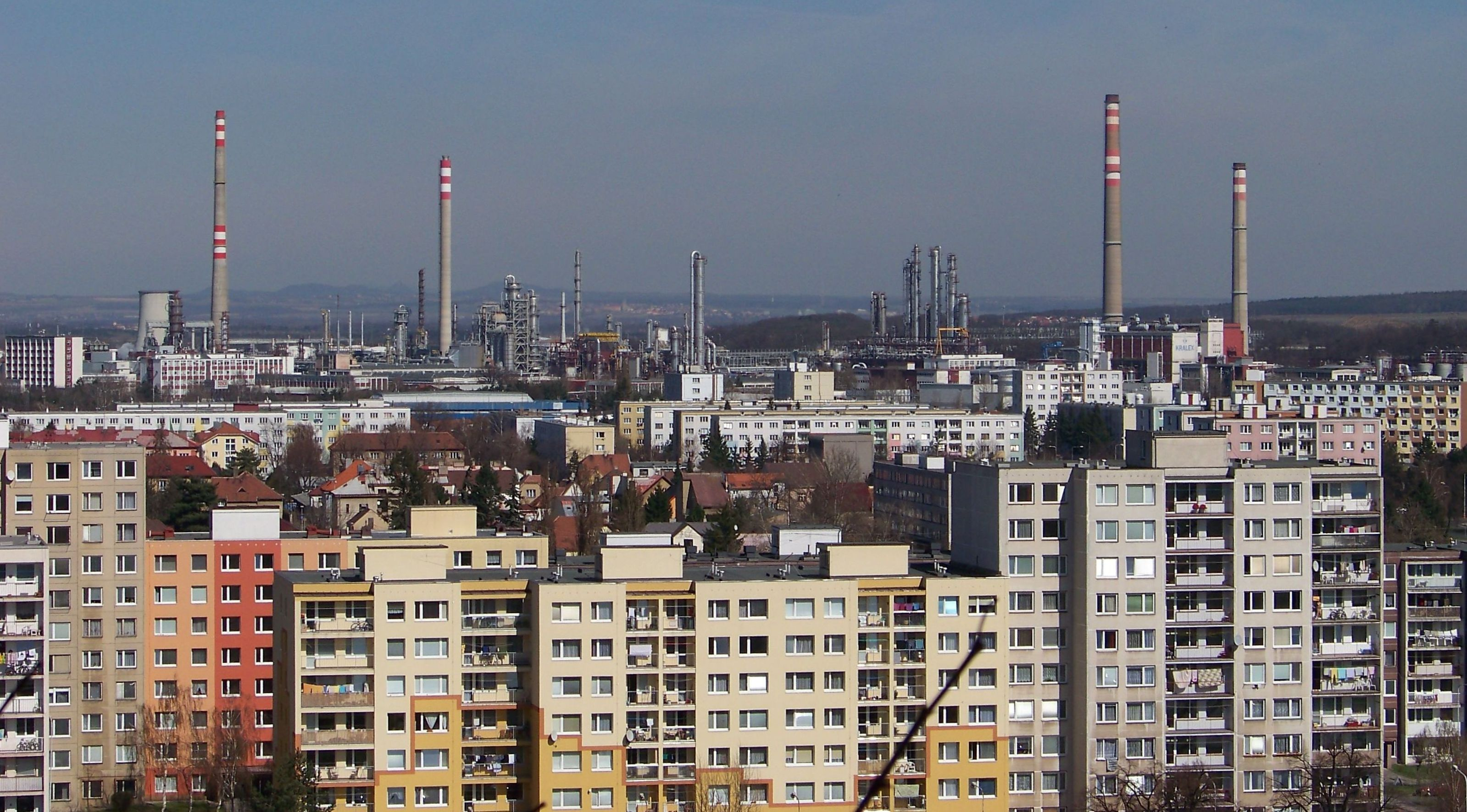 Kralupy nad Vltavou, Mělník District, Central Bohemian Region, the Czech Republic. A view from Hostibejk hill, housing estates in Lobeček and Kaučuk (Synthos) factory.